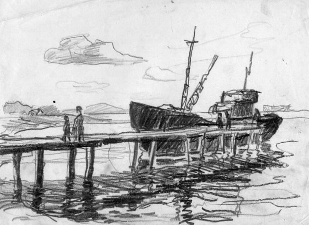 M. Schultz. Drawing: "Jetty". 1968. Media - Pencil-paper, size - 21X29,5